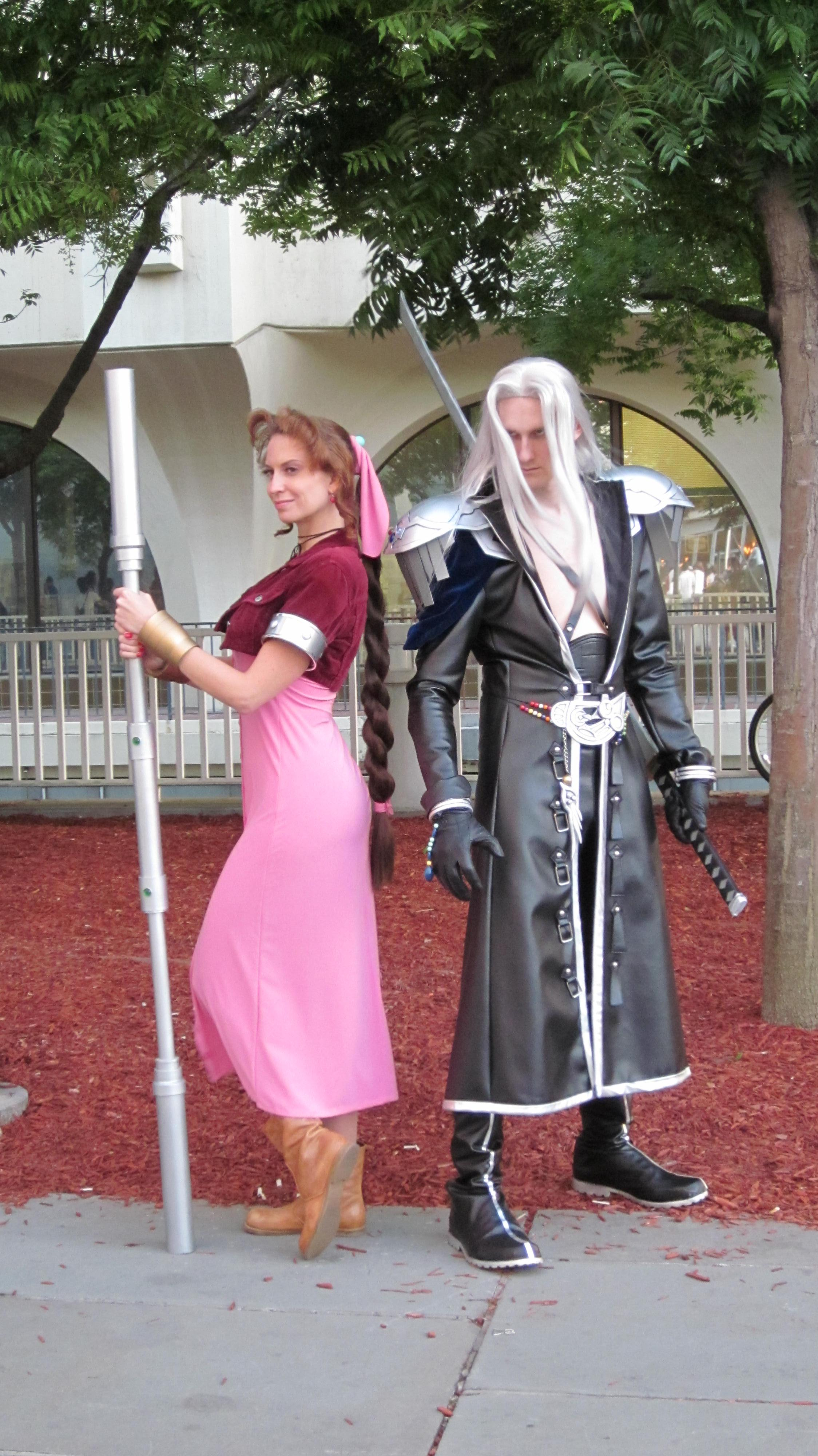 Cosplayers portraying Sephiroth and Aeris Gainsborough from Final Fantasy VII at FanimeCon 2010 in San Jose, California.